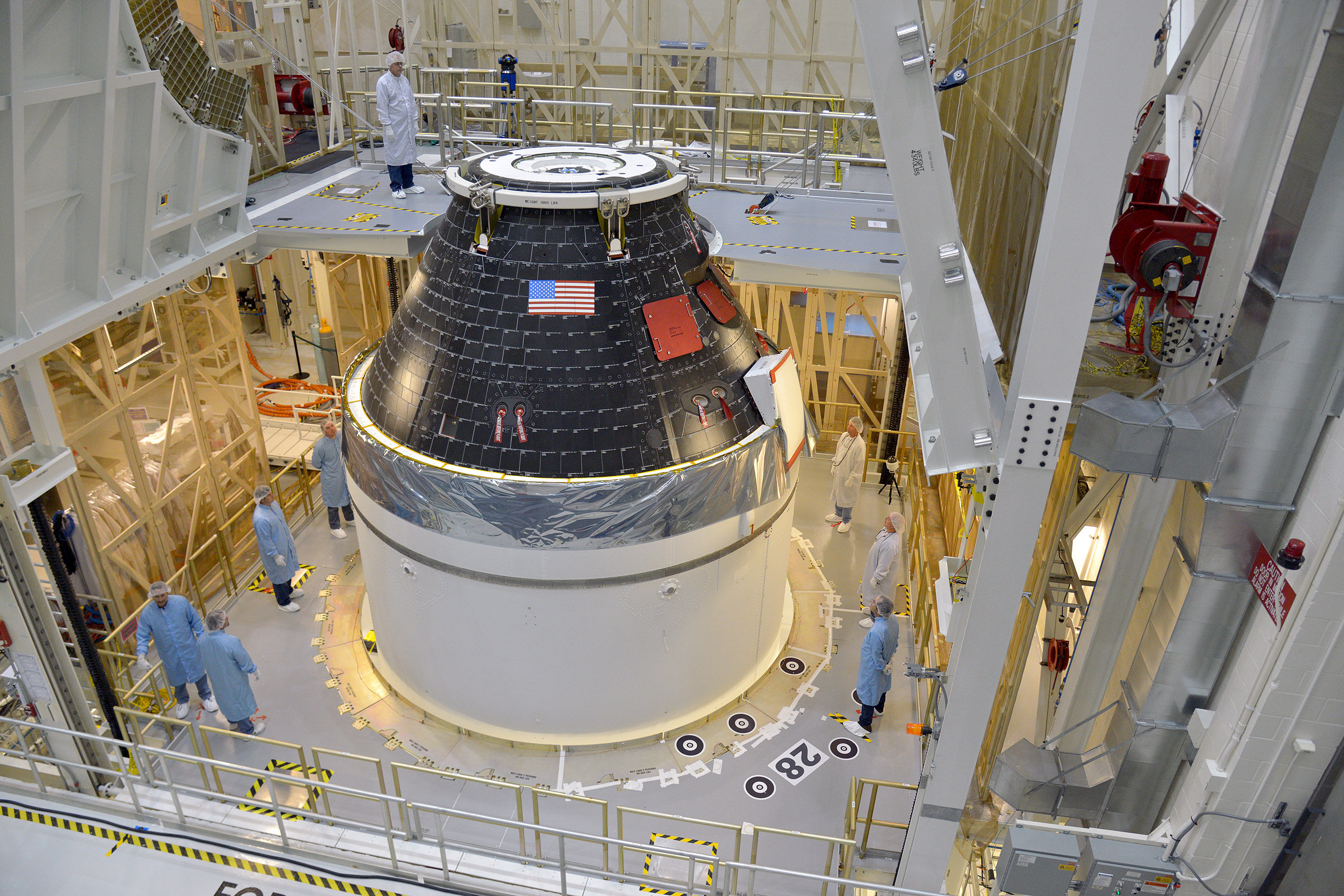 NASA’s first completed Orion crew module sits atop its service module at the Neil Armstrong Operations and Checkout Facility at Kennedy Space Center in Florida. The crew and service module will be transferred together on Wednesday to another facility for fueling, before moving again for the installation of the launch abort system. At that point, the spacecraft will be complete and ready to stack on top of the Delta IV Heavy rocket that will carry it into space on its first flight in December. For that flight, Exploration Flight Test-1, Orion will travel 3,600 miles above the Earth – farther than any spacecraft built to carry people has traveled in more than 40 years – and return home at speeds of 20,000 miles per hour, while enduring temperatures near 4,000 degrees Fahrenheit.